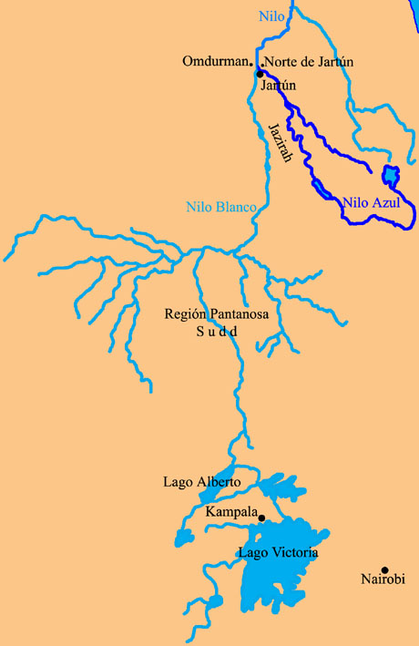 Map showing the course of the White Nile on its way down Sudan. Este mapa ha sido dibujado especialmente para el artículo Nilo Blanco por Nicolás Pérez, en julio de 2004.